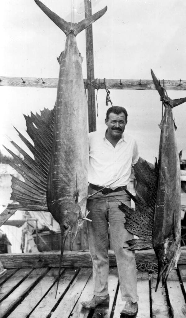 "Ernest Hemingway (1899–1961) was an American writer who won the Nobel Prize for literature in 1954. He was born in Oak Park, Illinois, and began his writing career as a newspaperman in Kansas City at the age of 17. His experiences in Europe informed his early novels. Hemingway served with a volunteer ambulance unit in the Alps in World War I, lived in Paris for much of the 1920s, and reported on the Greek Revolution and the civil war in Spain. His sense of these events resulted in The Sun Also Rises (1926), A Farewell to Arms (1929), and, some think his greatest novel, For Whom the Bell Tolls (1940). Hemingway divided his time in much of the 1930s and 1940s between Key West, Florida and Cuba. He was an avid outdoorsman whose interest in such sports as hunting, fishing, and bull fighting were reflected in his novels and short stories. In Key West and Cuba, Hemingway discovered a passion for big-game fishing that would inspire him for the remainder of his life and that prompted his outstanding short novel, The Old Man and the Sea (1951). This photograph, taken in Key West in the 1940s, shows Hemingway with a sailfish he had caught. Many of his novels, short stories, and his nonfiction work are classics of American literature, distinctive for their understatement, spare prose, and authentic characterization." The fish is an Atlantic sailfish (Istiophorus albicans), the only species of sailfish found in that ocean.